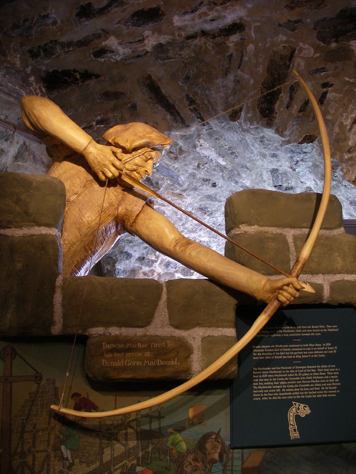 Inside Eilean Donan Castle 01